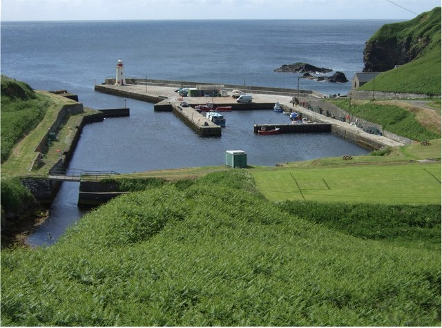 The view down to Lybster Harbour